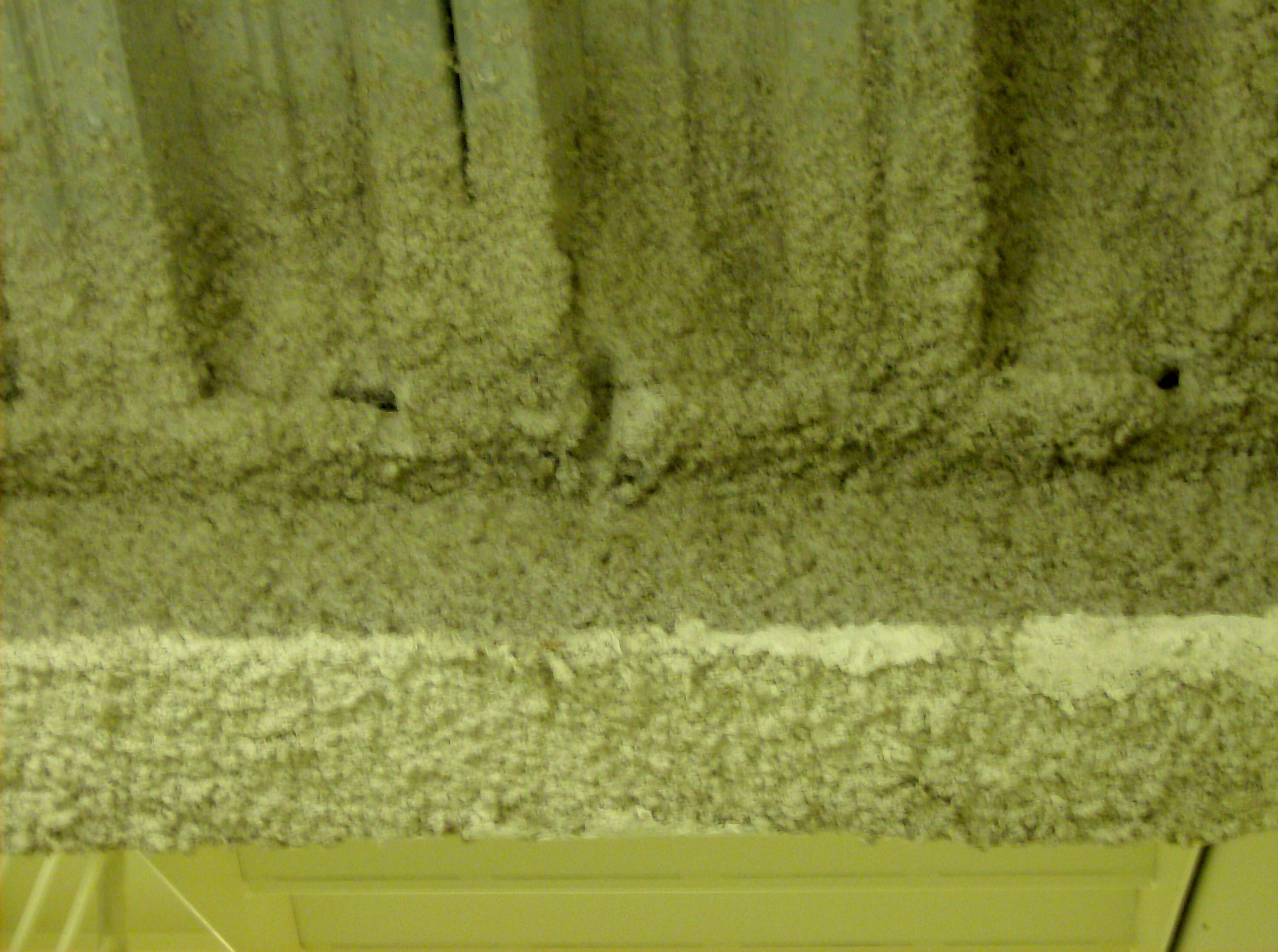 Spray fireproofing on an I-beam